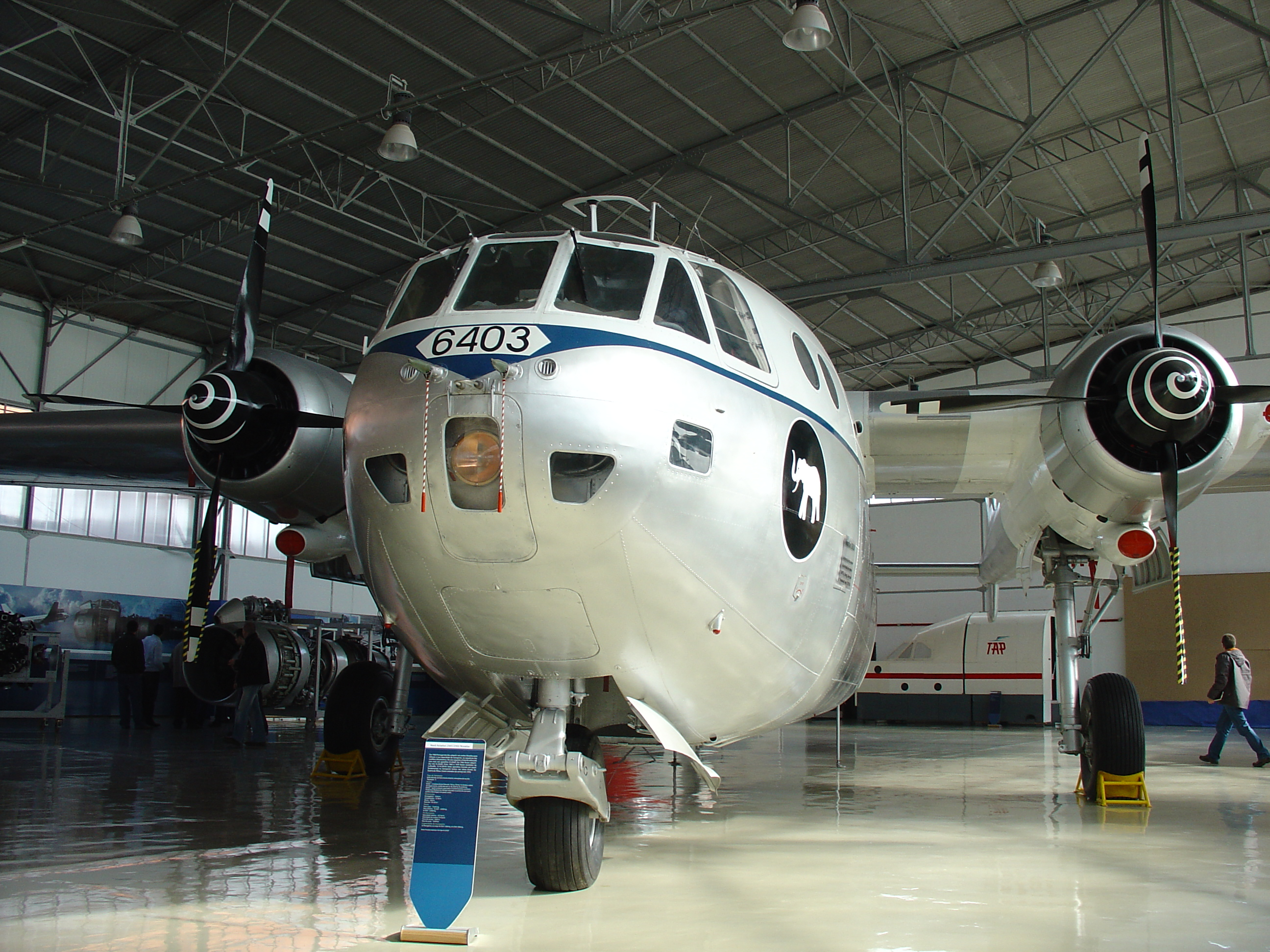 Nord Noratlas in the Museu do Ar